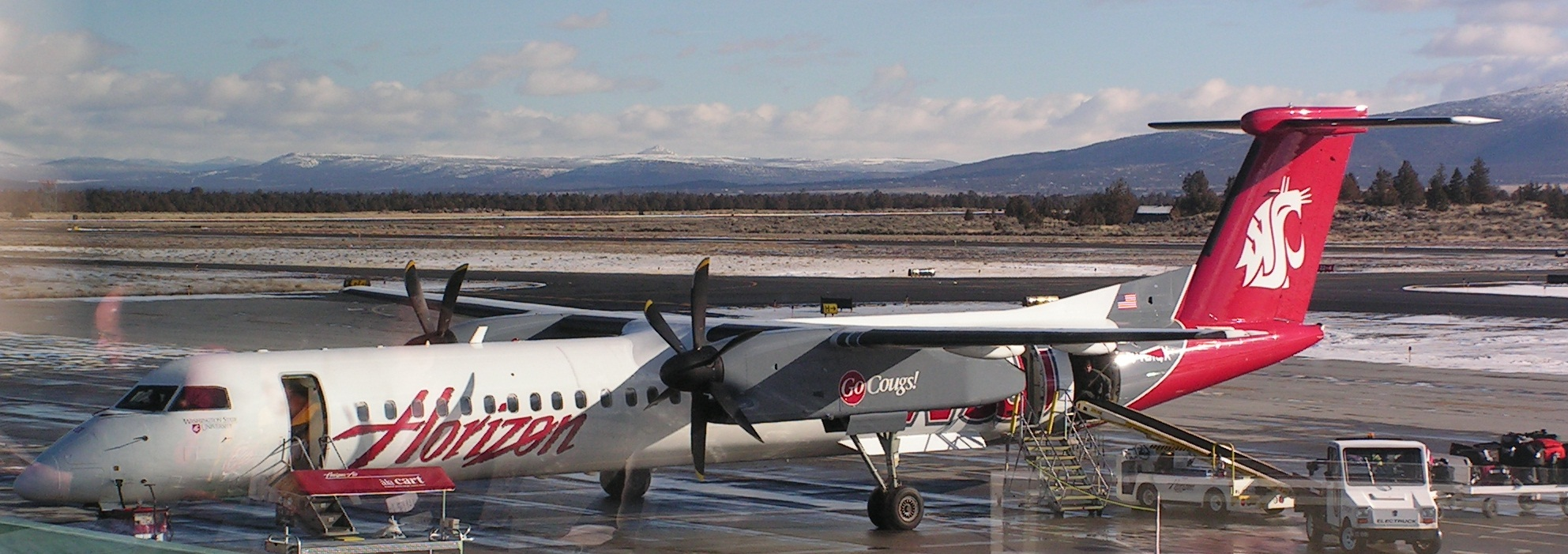 A Horizon Air Bombardier Q400 in promotional WSU livery, seen in Redmond OR (KRDM).